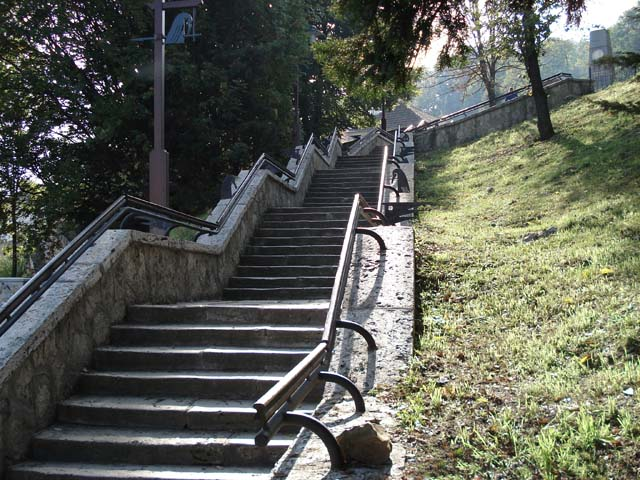 Avas Stairs, Miskolc, Hungary